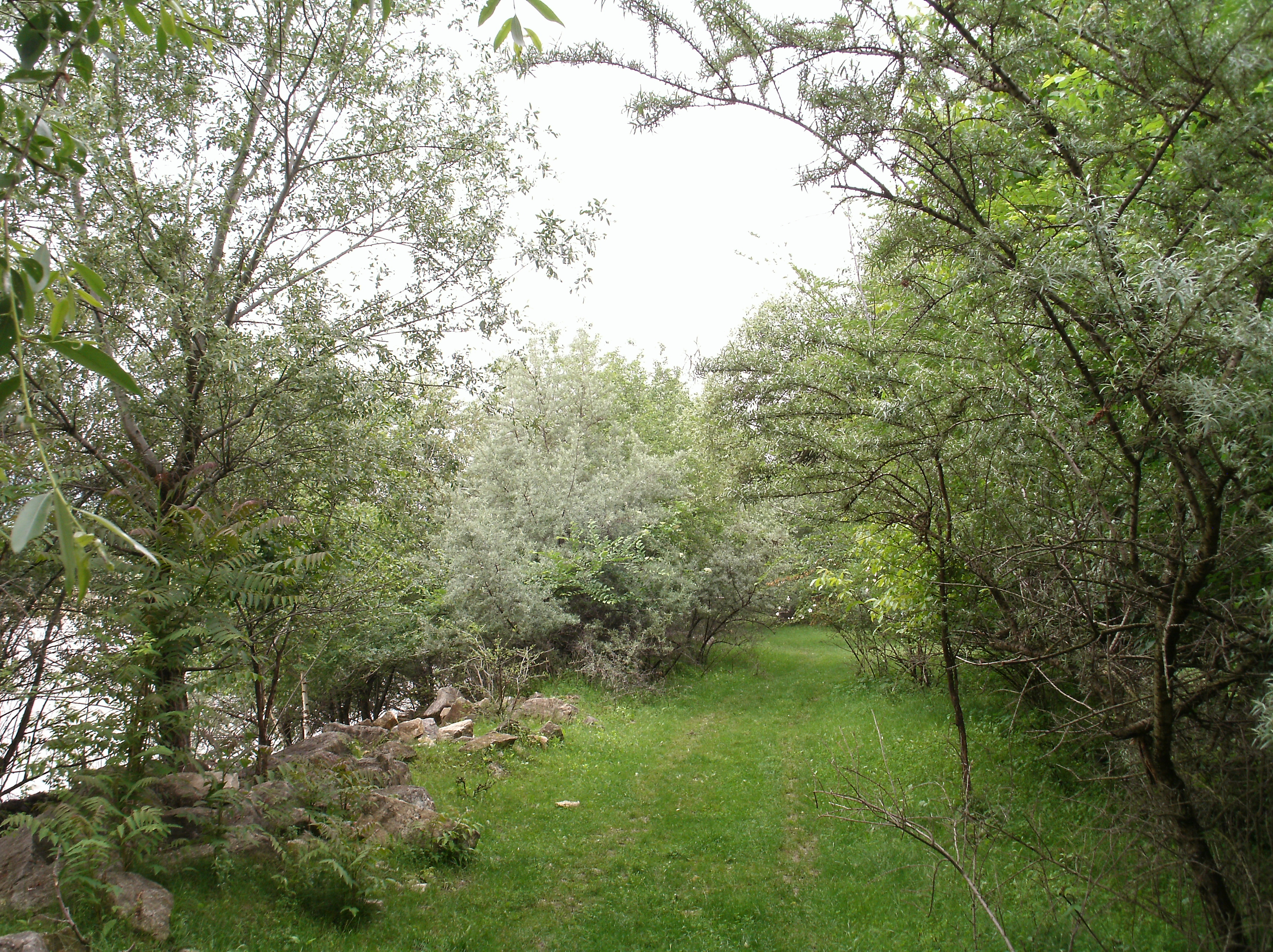 Sea buckthorn grove